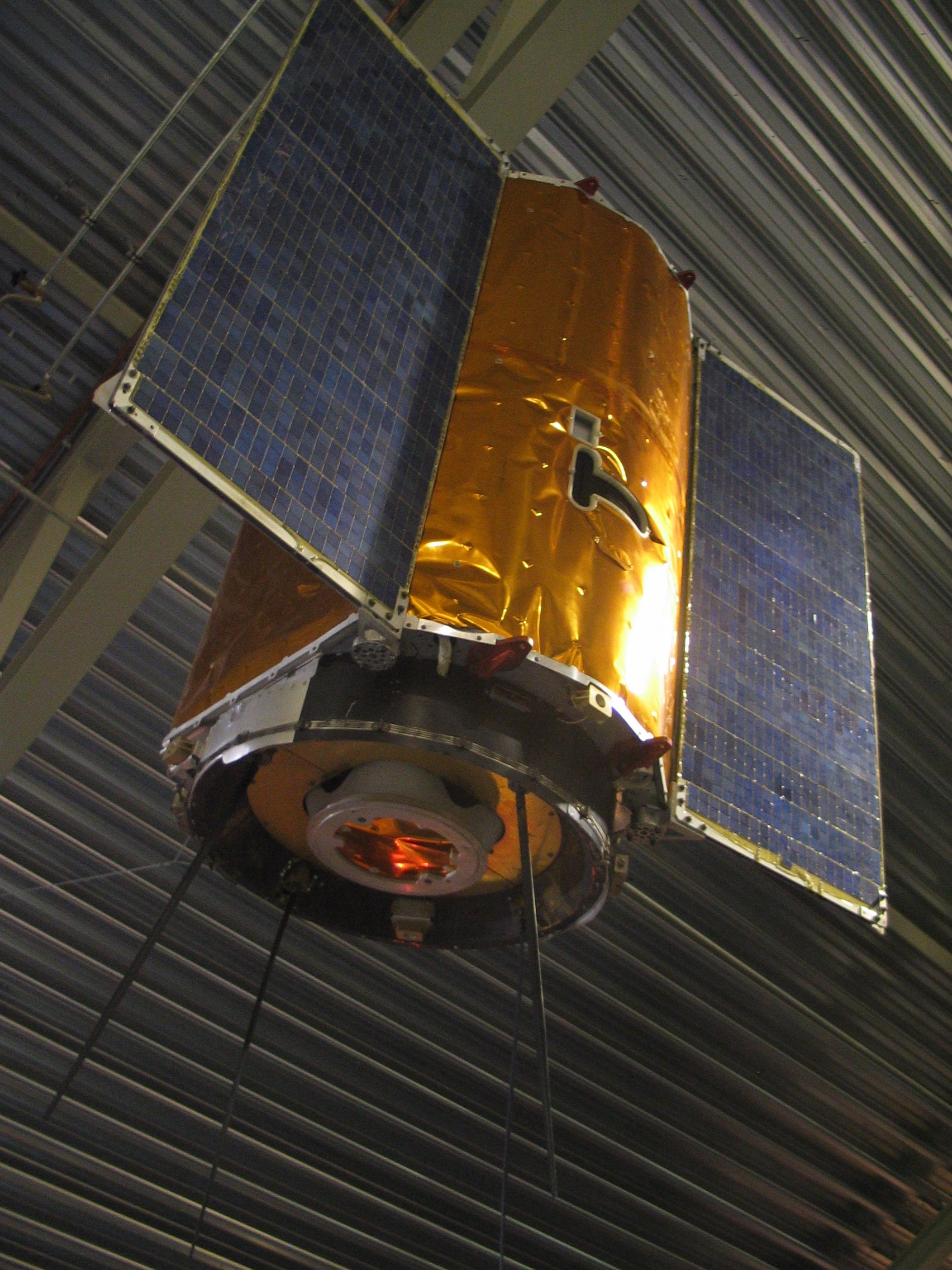 Backup flightarticle of the Astronomische Nederlandse Satelliet